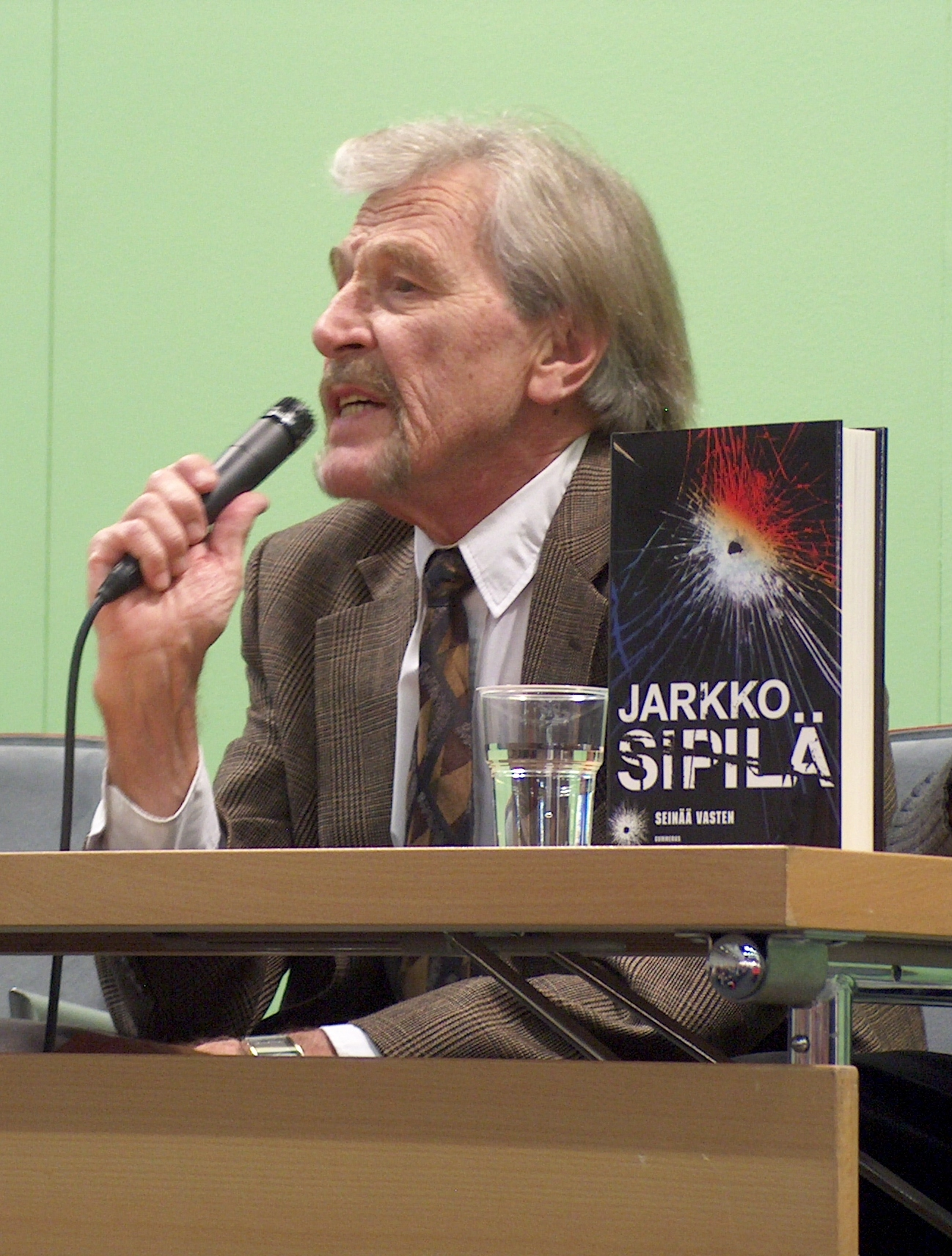 The Finnish crime writer Totti Karpela at the Helsinki Book Fair 2008